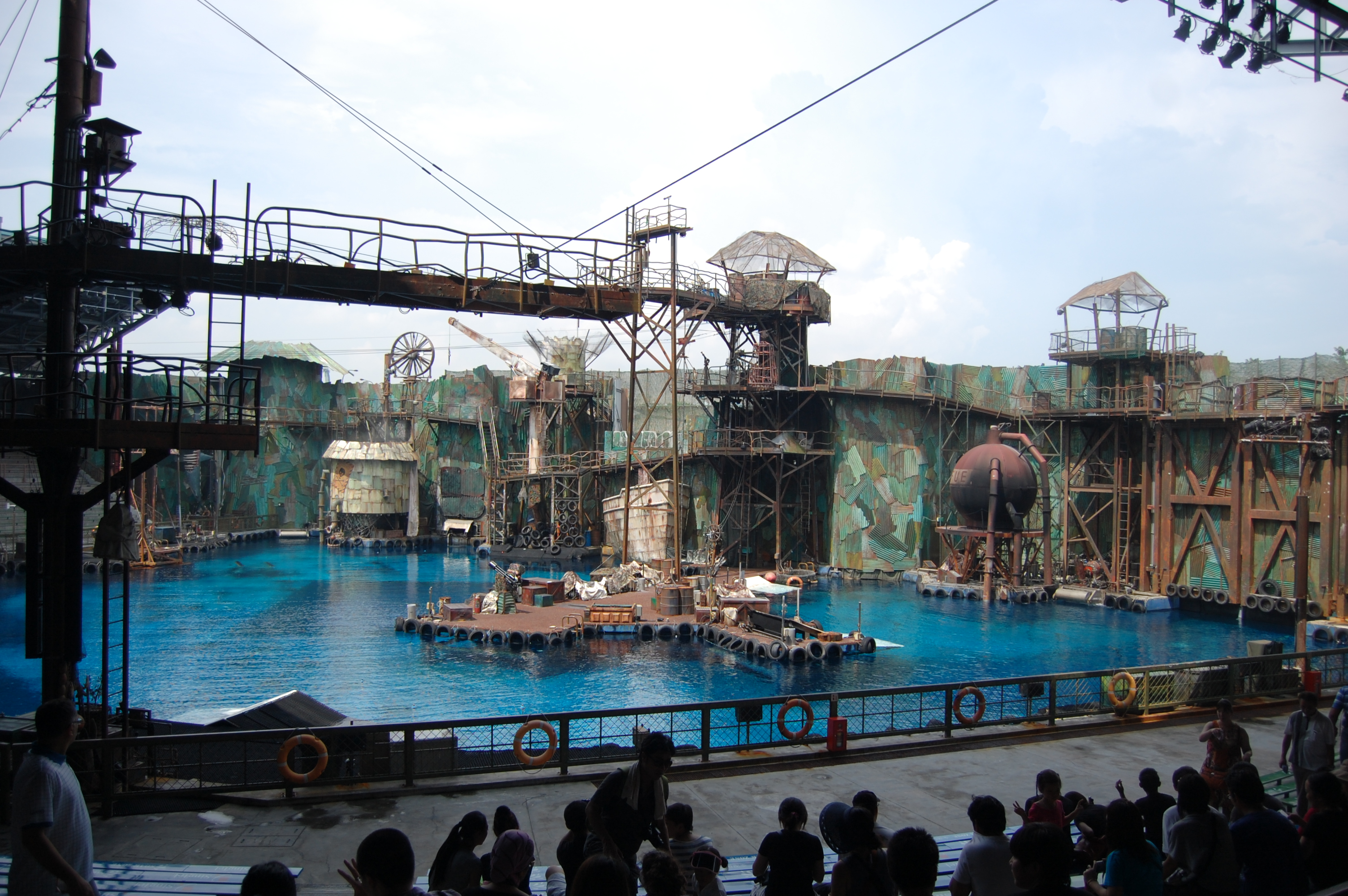 Universal Studio Singapore